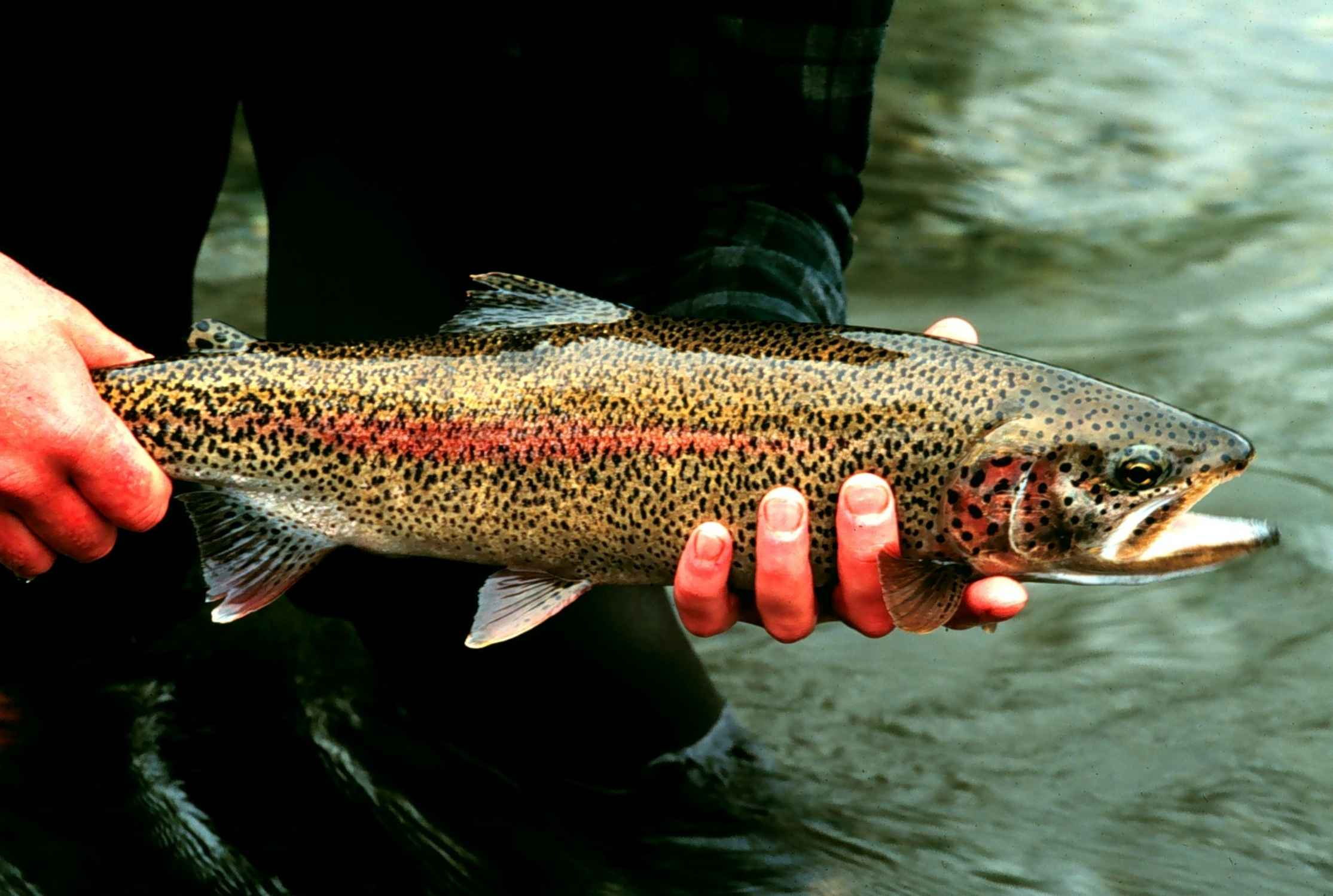 Image title: Rainbow trout fish onchorhynchus mykiss detailed photography Image from Public domain images website